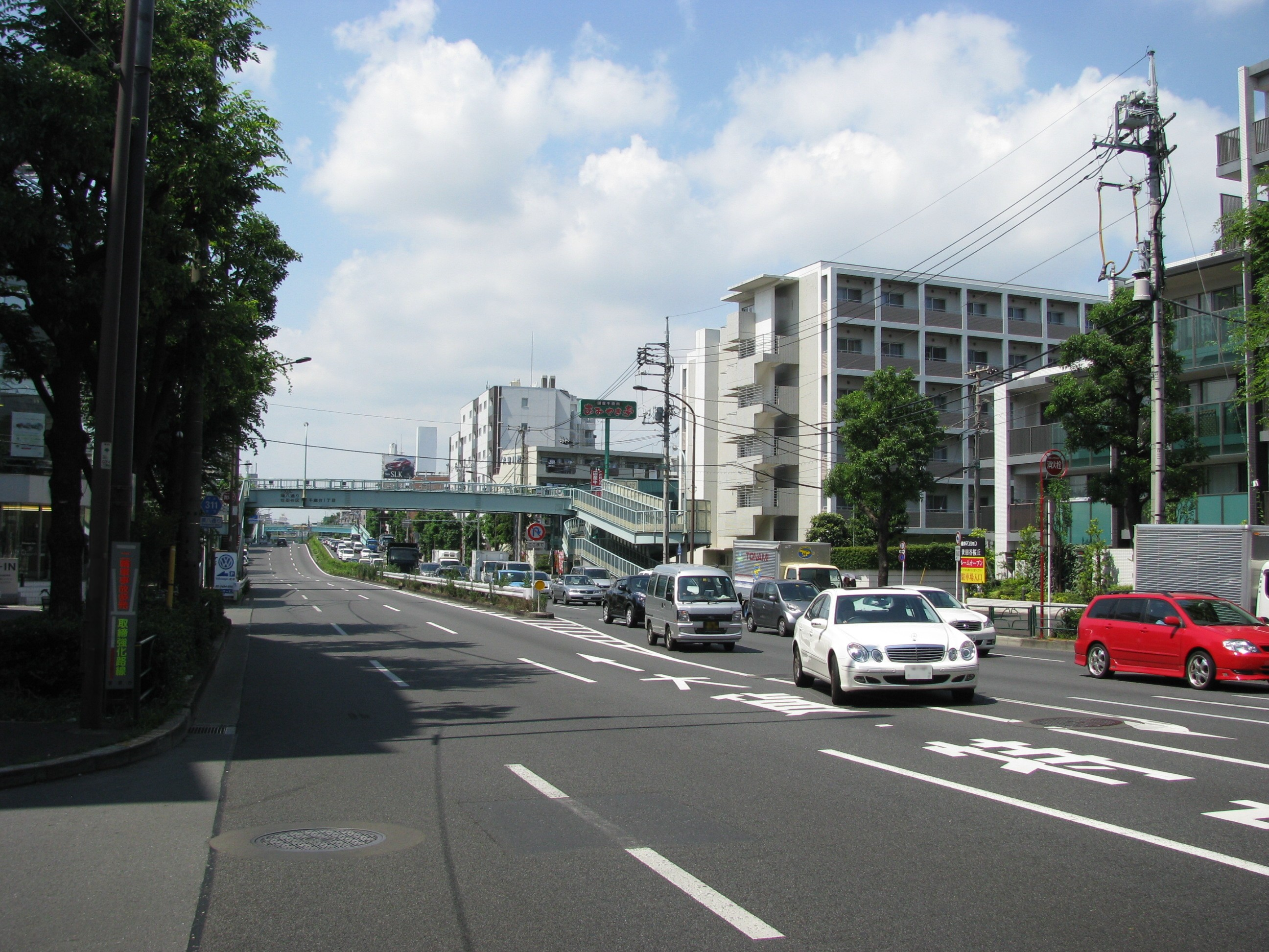 The Tokyo Prefectural Route 311. This location is Chitosedai in Setagaya, Tokyo, Japan.